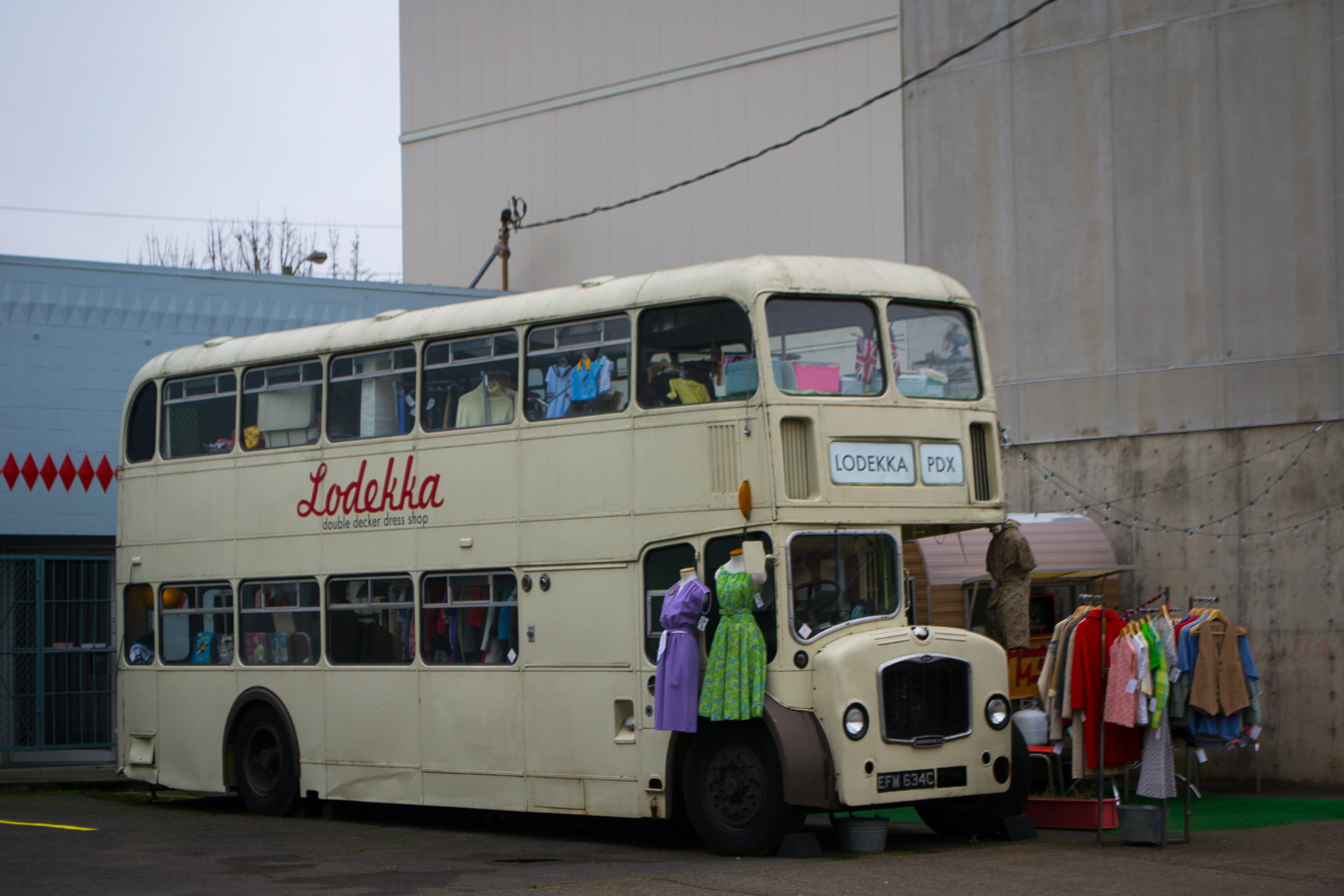 The Lodekka Double Decker Dress Shop on North Williams Avenue, Portland, Oregon. It is a Bristol FLF 'Lodekka' built in 1965 for Crosville Motor Services in the UK - their fleet number DFB200; registration number EFM 634C.